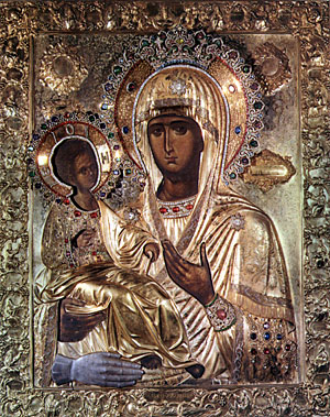 Bogorodica Trojeručica, famous icon from Hilandar monastery